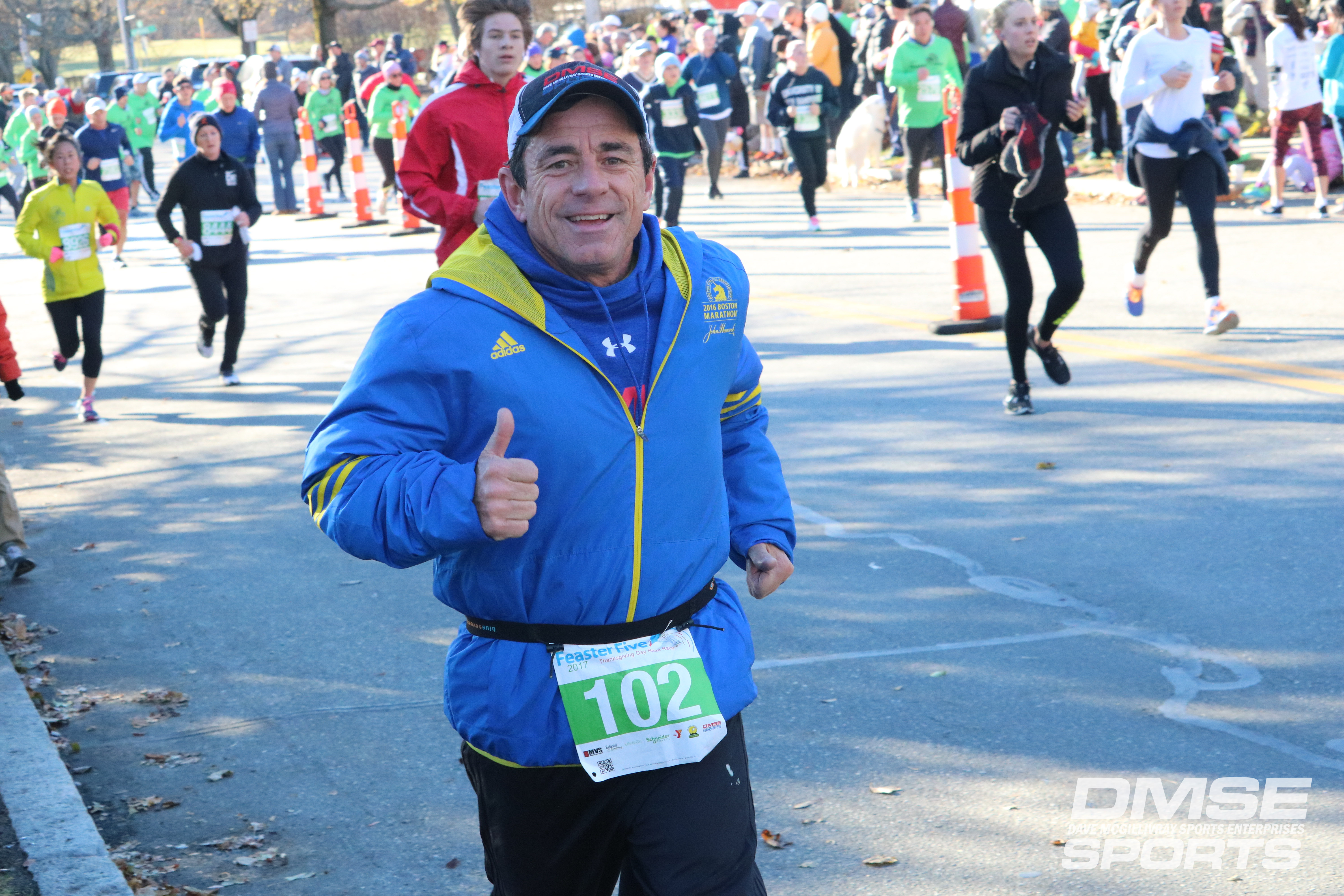 Dave McGillivray runs in the 2017 Feaster Five Thanksgiving Day Road Race